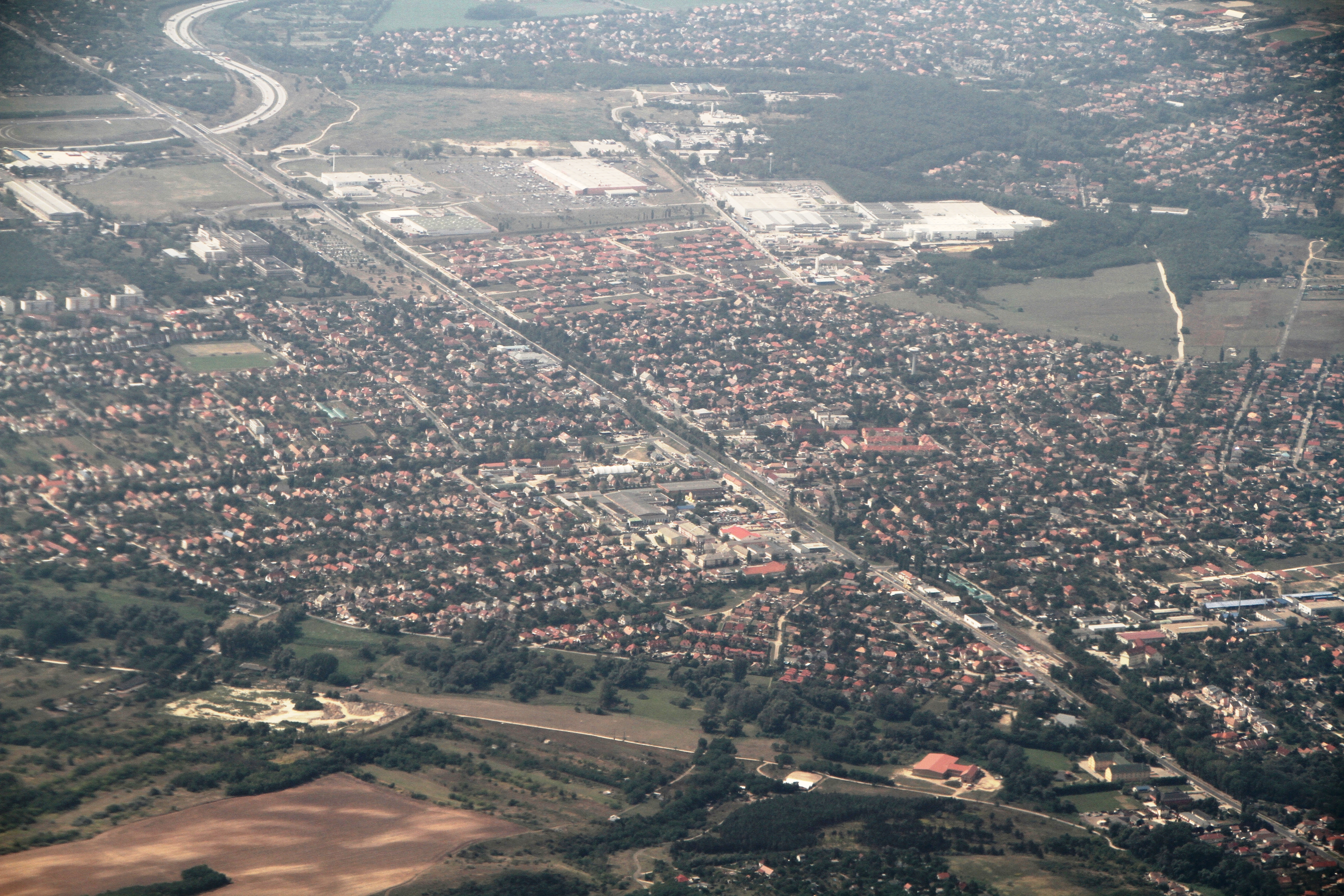 Aerial view over Kistarcsa town in Pest county, Hungary